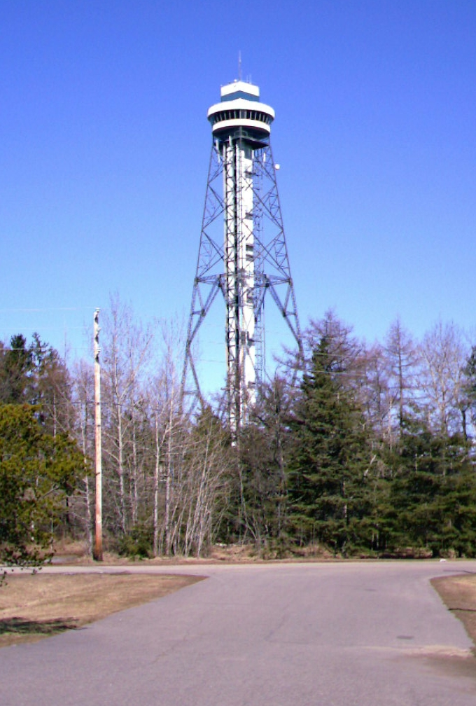 The observation tower at La Cité de l'Énergie, in Shawinigan, Quebec. Taken by uploader while on vacation.